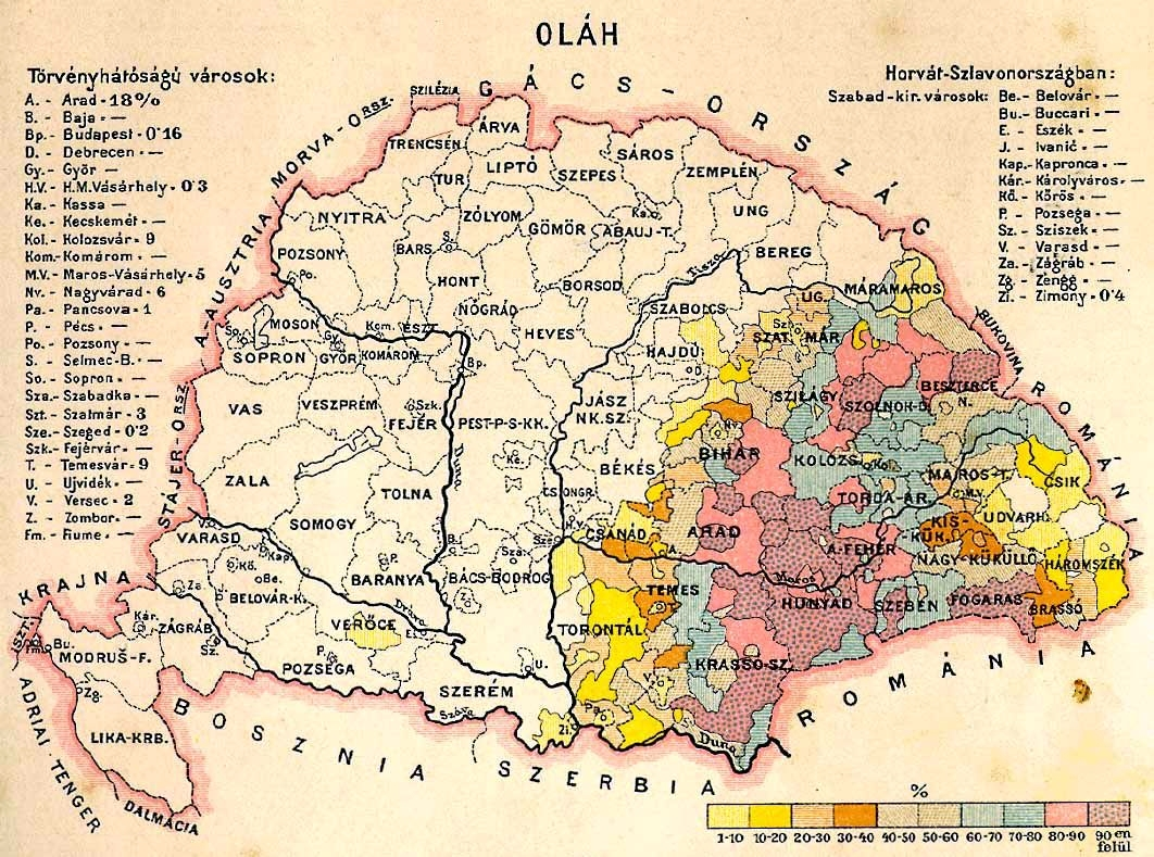 The Vlach (Romanian) population in Hungary according to the census from 1890